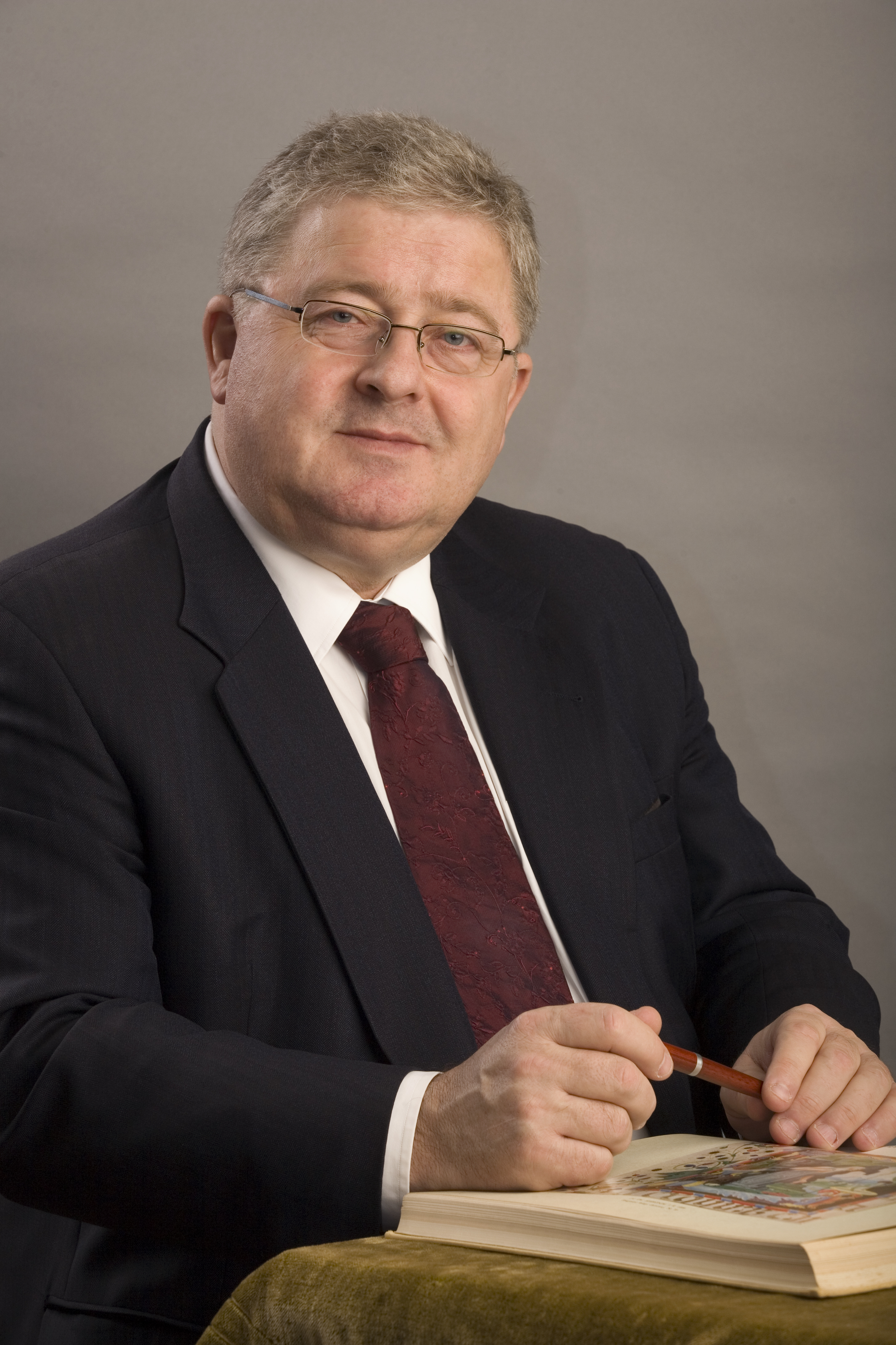 Czesław Siekierski, Polish politician and Member of the European Parliament